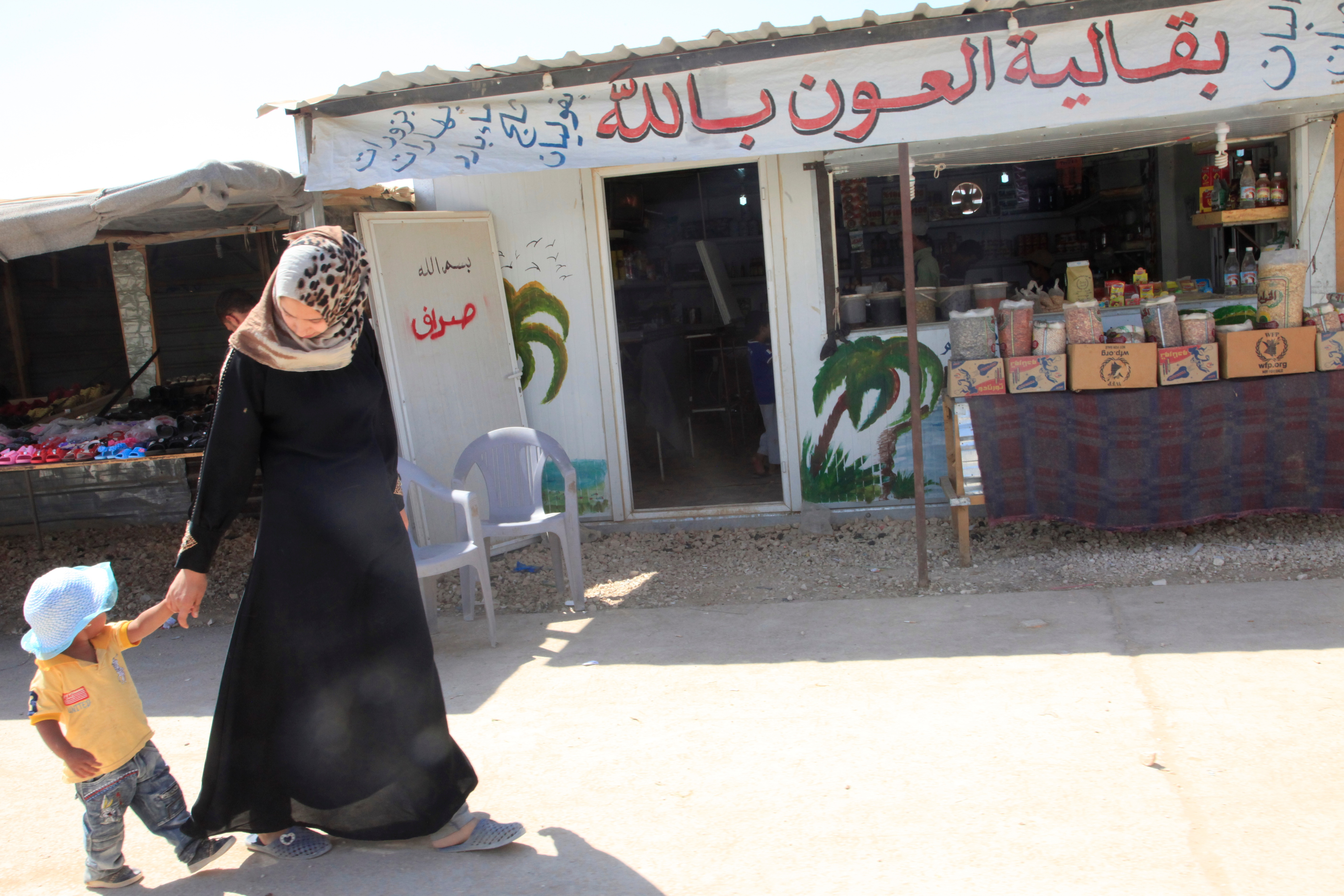 A woman and her child walk along the 'Champs Elysees', the main street in the Zaatari refugee camp for Syrian refugees in Jordan, 29 August 2013. The Zaatari camp currently is home to around 120,000 people who've fled the conflict in Syria, just some of the nearly 2 million people who have been forced to move to neighbouring countries. Find out more about UK support for the Syria humanitarian crisis Picture: Russell Watkins/Department for International Development